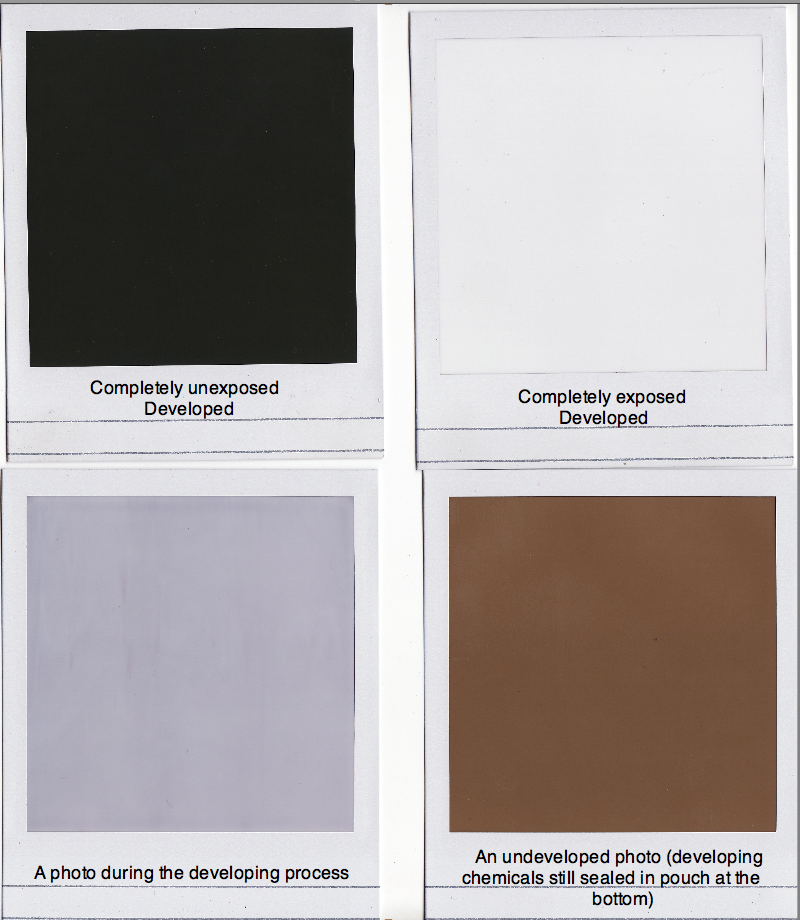 Four stages of Polaroid film. I used Polaroid 600 Write-On film. Self-made image; PD release.